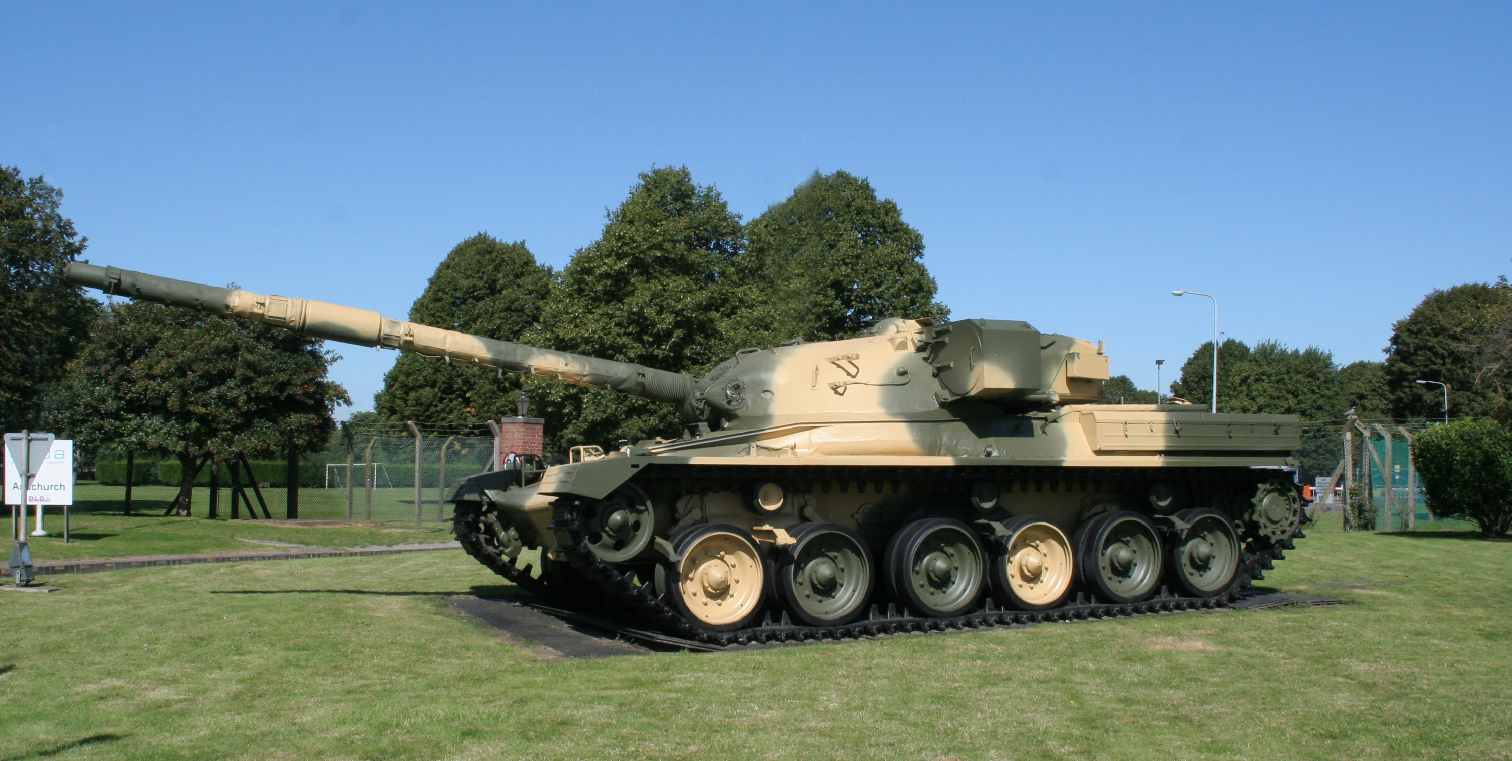 Chieftain tank outside Ashchurch depot.